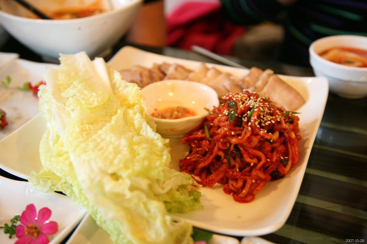 Korean cuisine